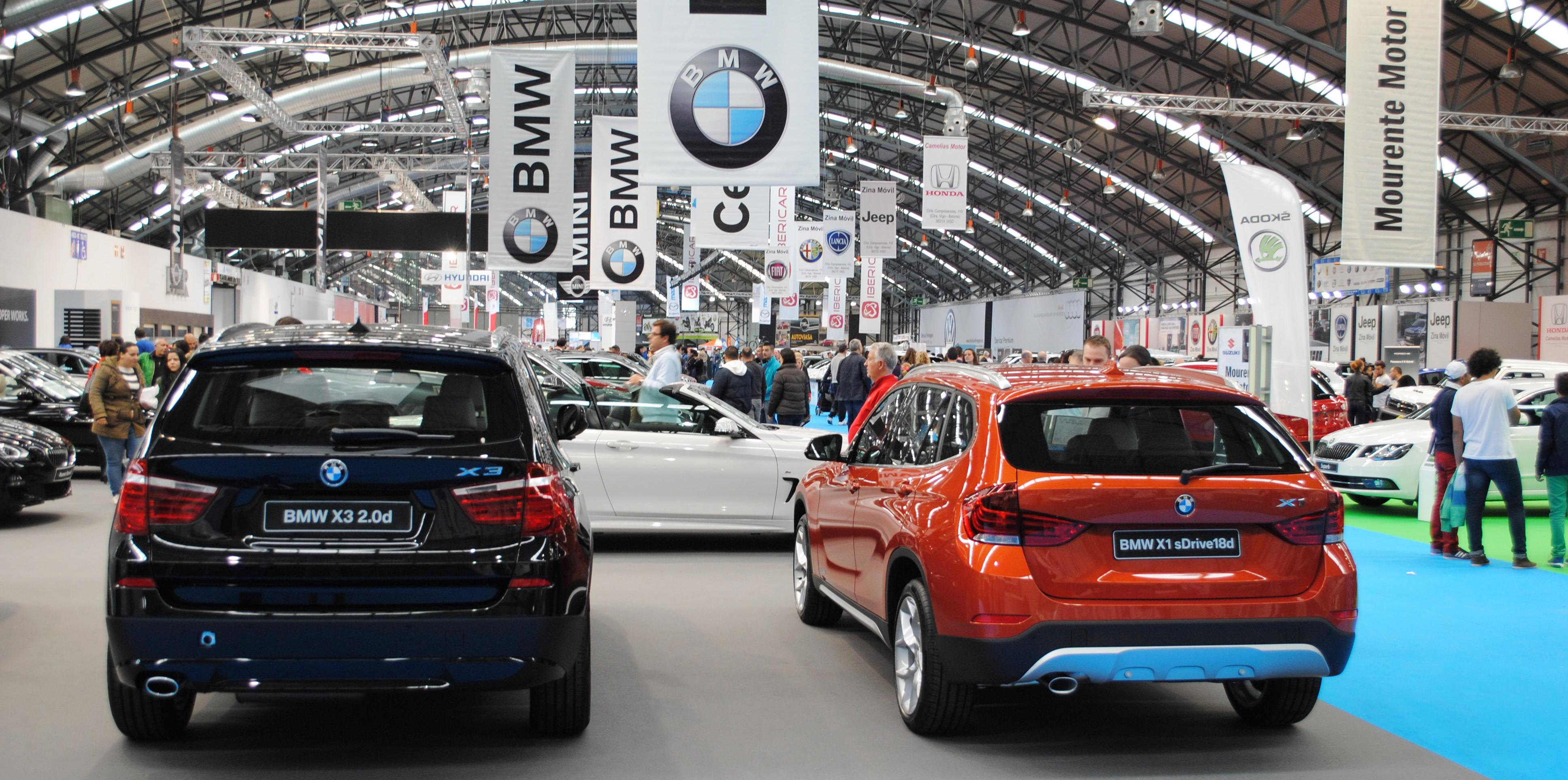 Salón del Automóvil de Vigo 2014.JPG